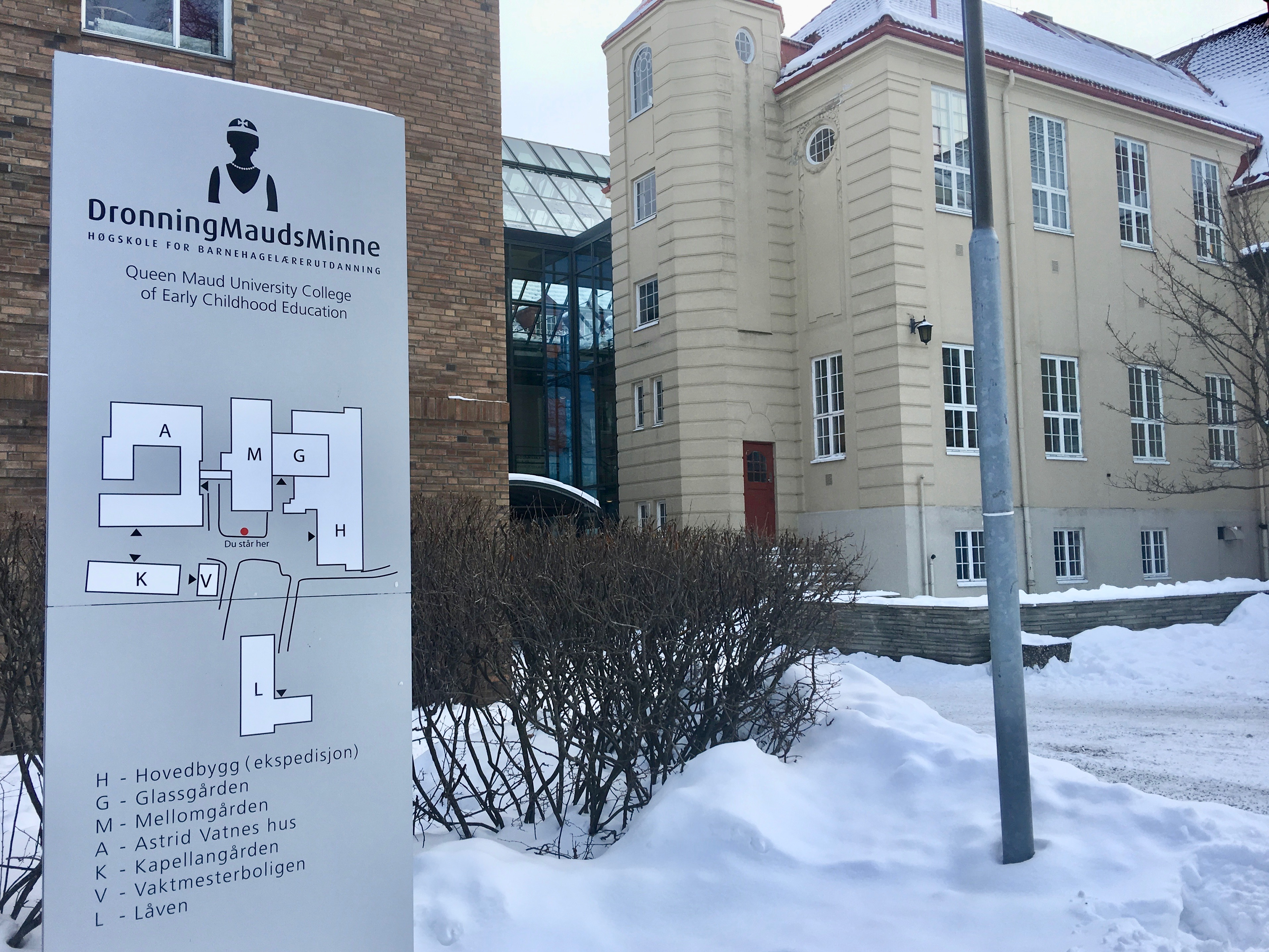 Main entrance of Queen Maud University College of Early Childhood Education (Dronning Mauds Minne Høgskole for barnehagelærerutdanning, tidligere Dalen blindeskole) at Thrond Nergaards veg 7, Trondheim, Norway.Photo taken on 2018-03-05.